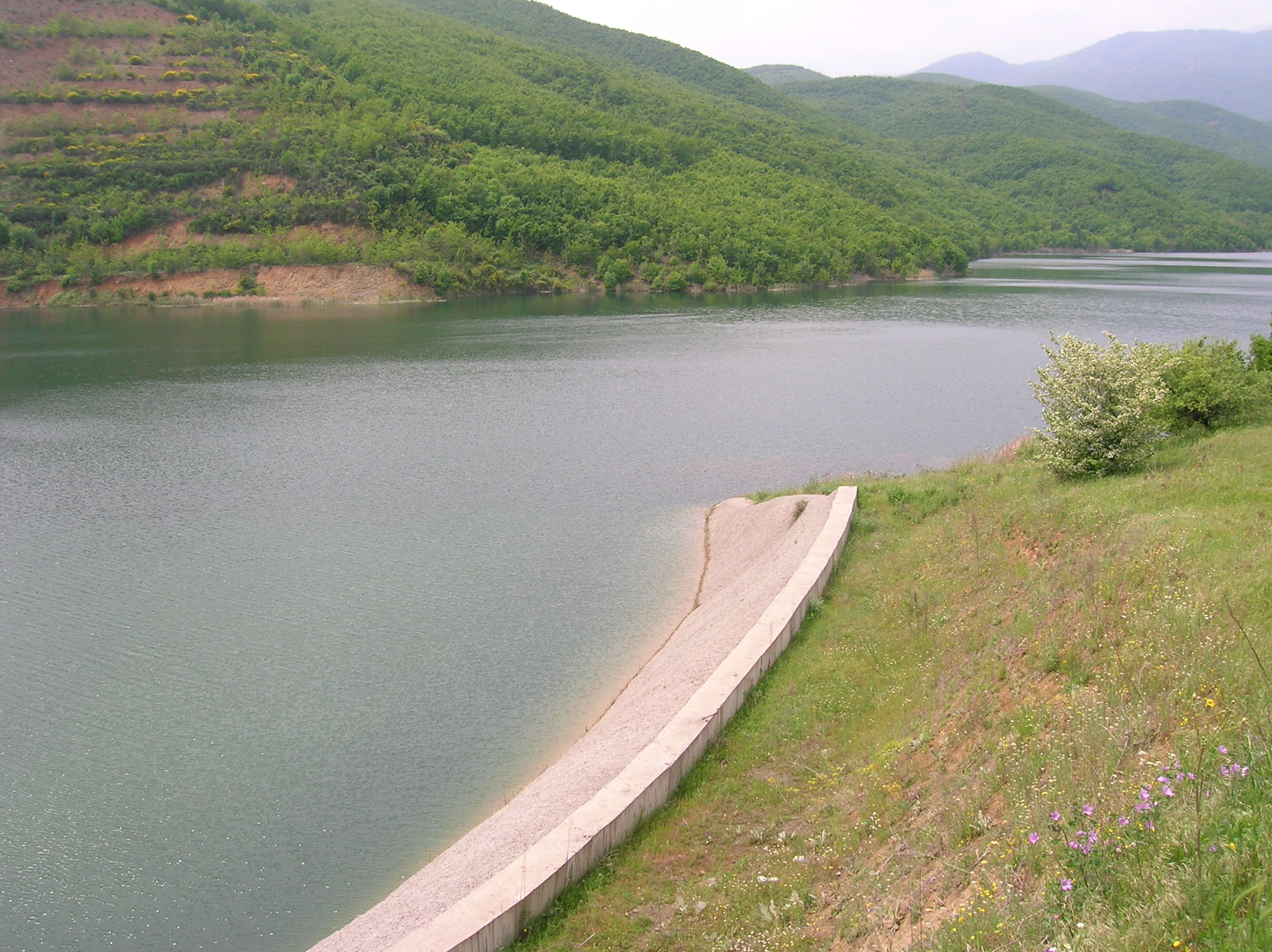 This is a photography of Natura 2000 protected area with ID GR1220002